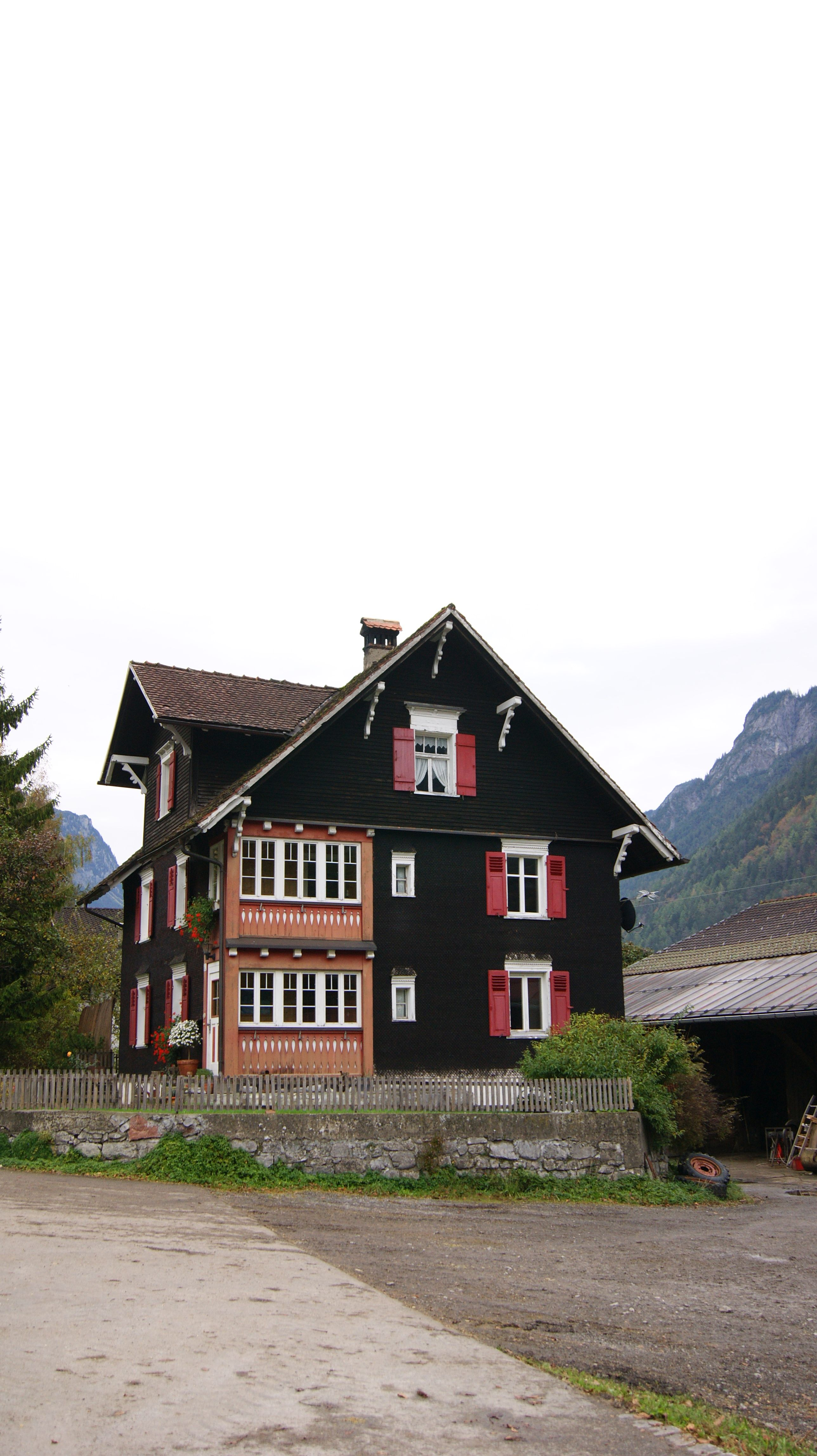 Farmhouse in Radin / Bludenz in Vorarlberg, Austria.